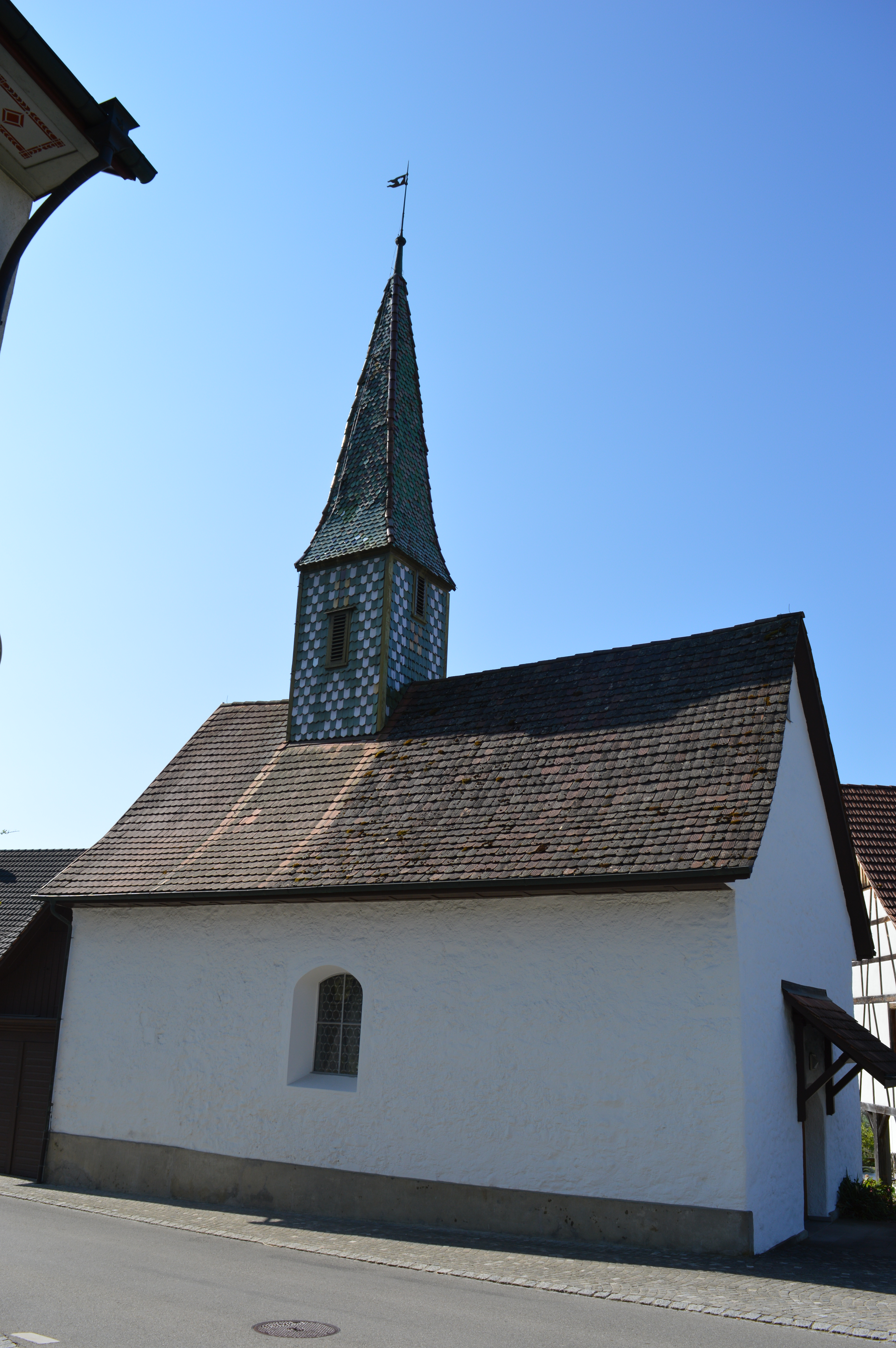 Protestant church Niederneunforn, municipality of Neunforn, canton of Thurgovia, Switzerland